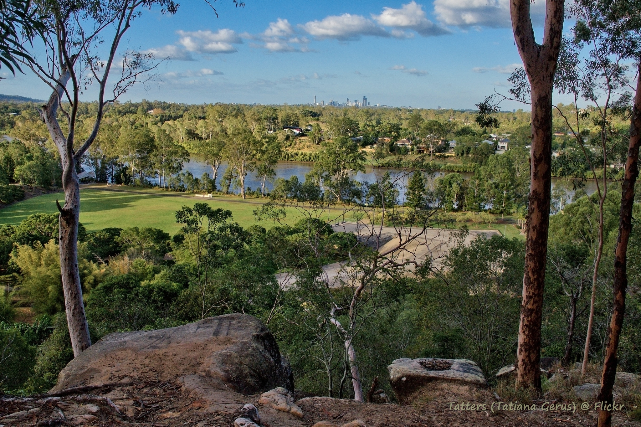 View across Rocks Roverside Park to the Brisbane River and beyond to the Brisbane CBD on the horizon, Seventeen Mile Rocks, 2019